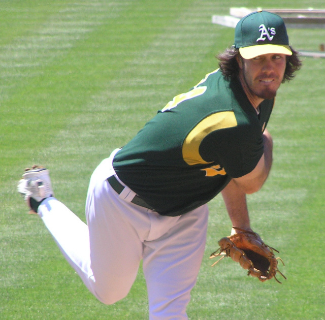 Photo by Justin Lafferty 00:00, 7 December 2006 . . Jlaff . . 640×630 (206 KB)